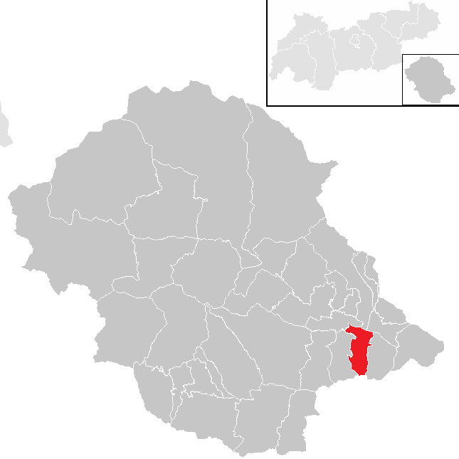 District Lienz